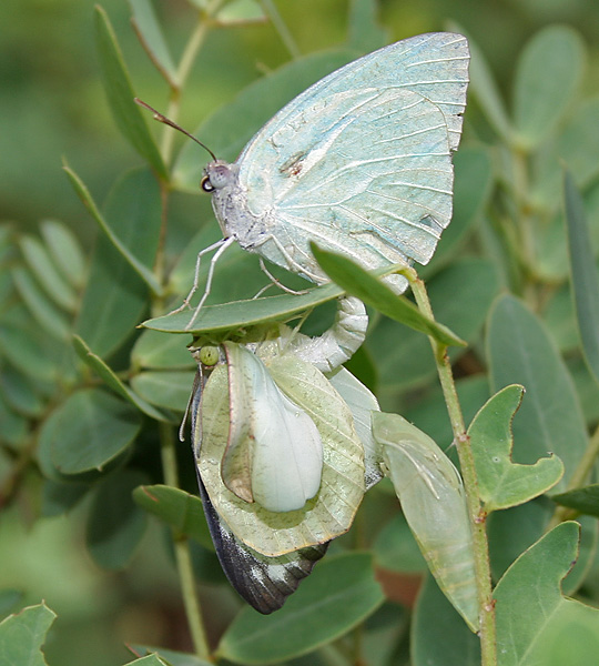 Mottled Emigrant Catopsilia pyranthe in Hyderabad , India.